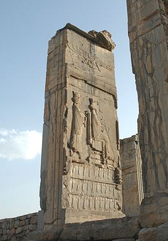 Designation of Xerxes I